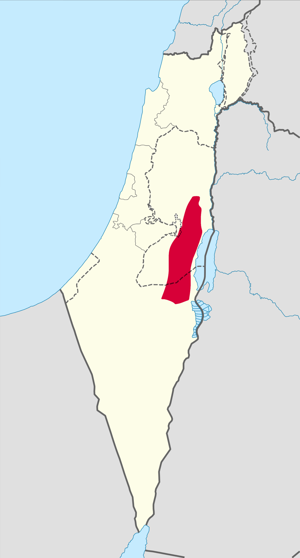 Location of Judaean Desert in Israel, Palestine, and disputed territory in red.